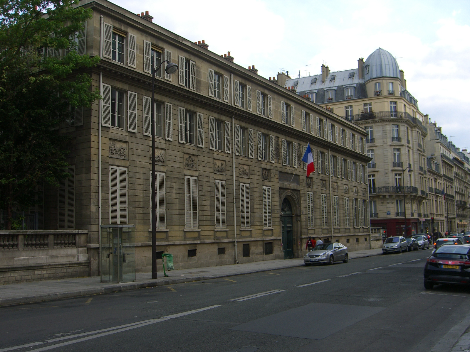 The entrance to the French Legion of Honor headquarters from the Solferino street in Paris